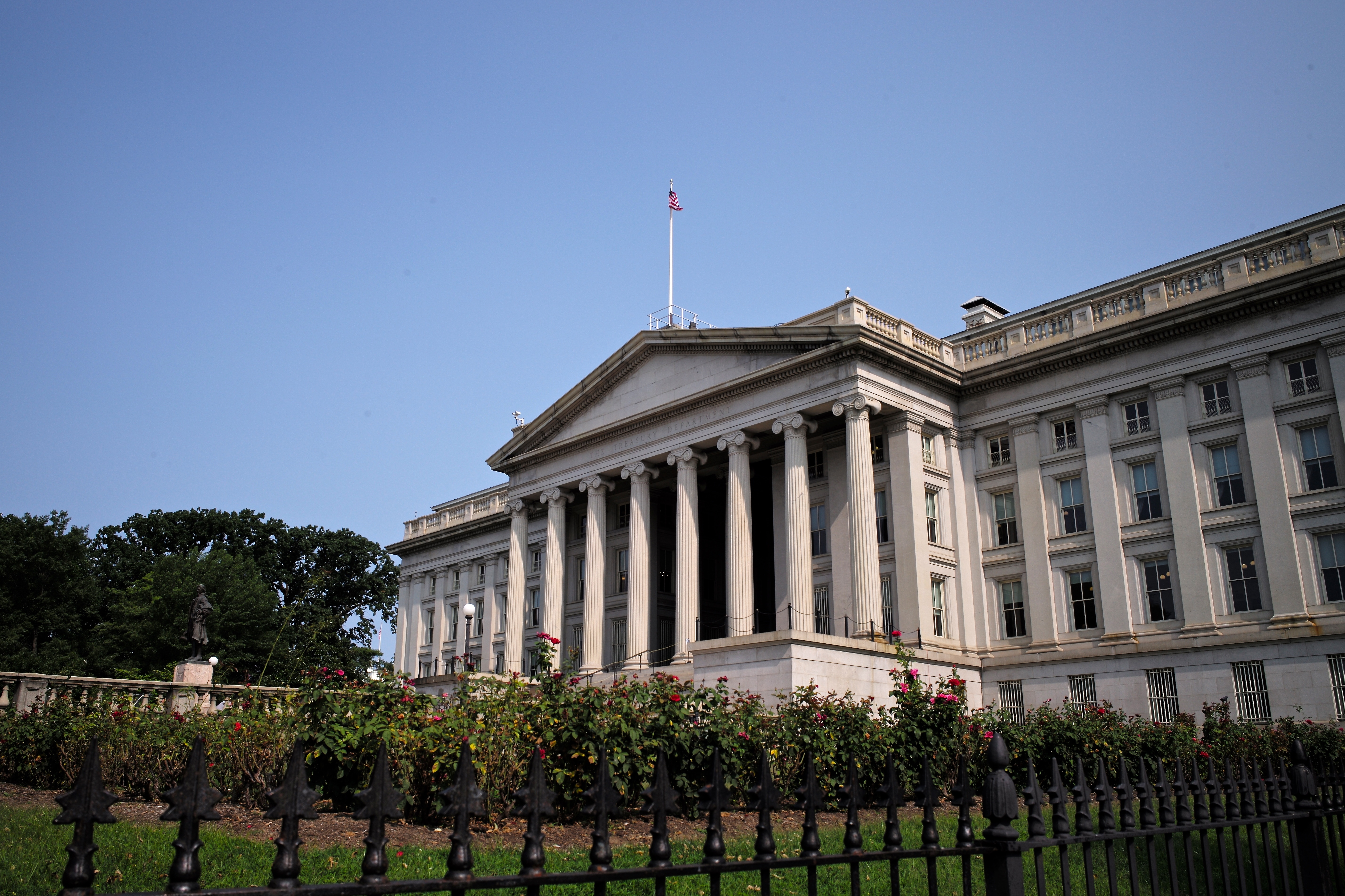 Washington DC